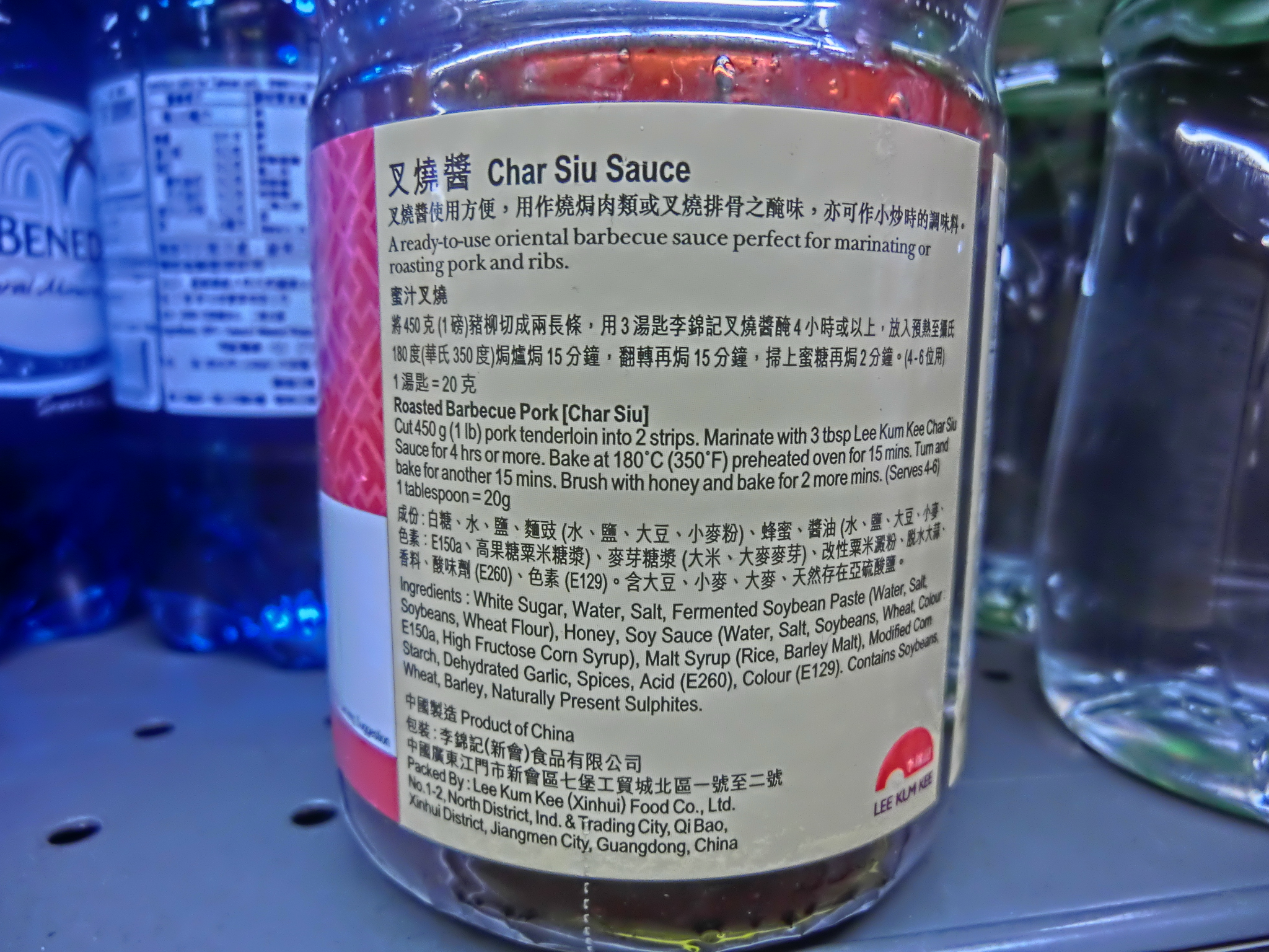 Lee Kum Kee brand 李錦記 Char Siu Sauce